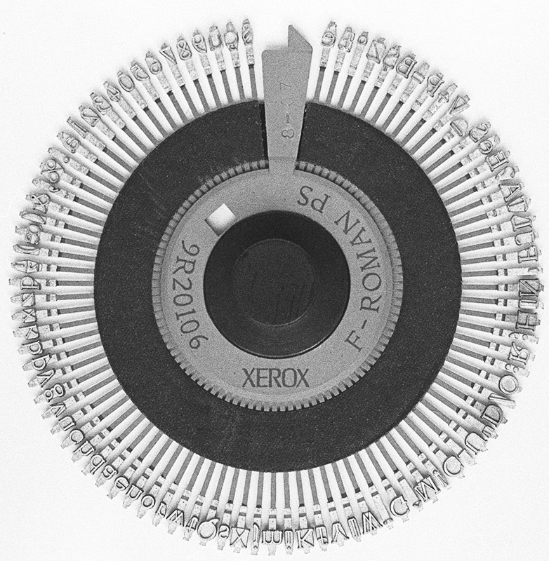 Roman PS Daisywheel print element for Xerox 800/850/860. For higher resolution or color images contact the author.